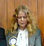 MP for the ACT party Hilary Calvert at the Maori Hill election candidates meeting in 2008